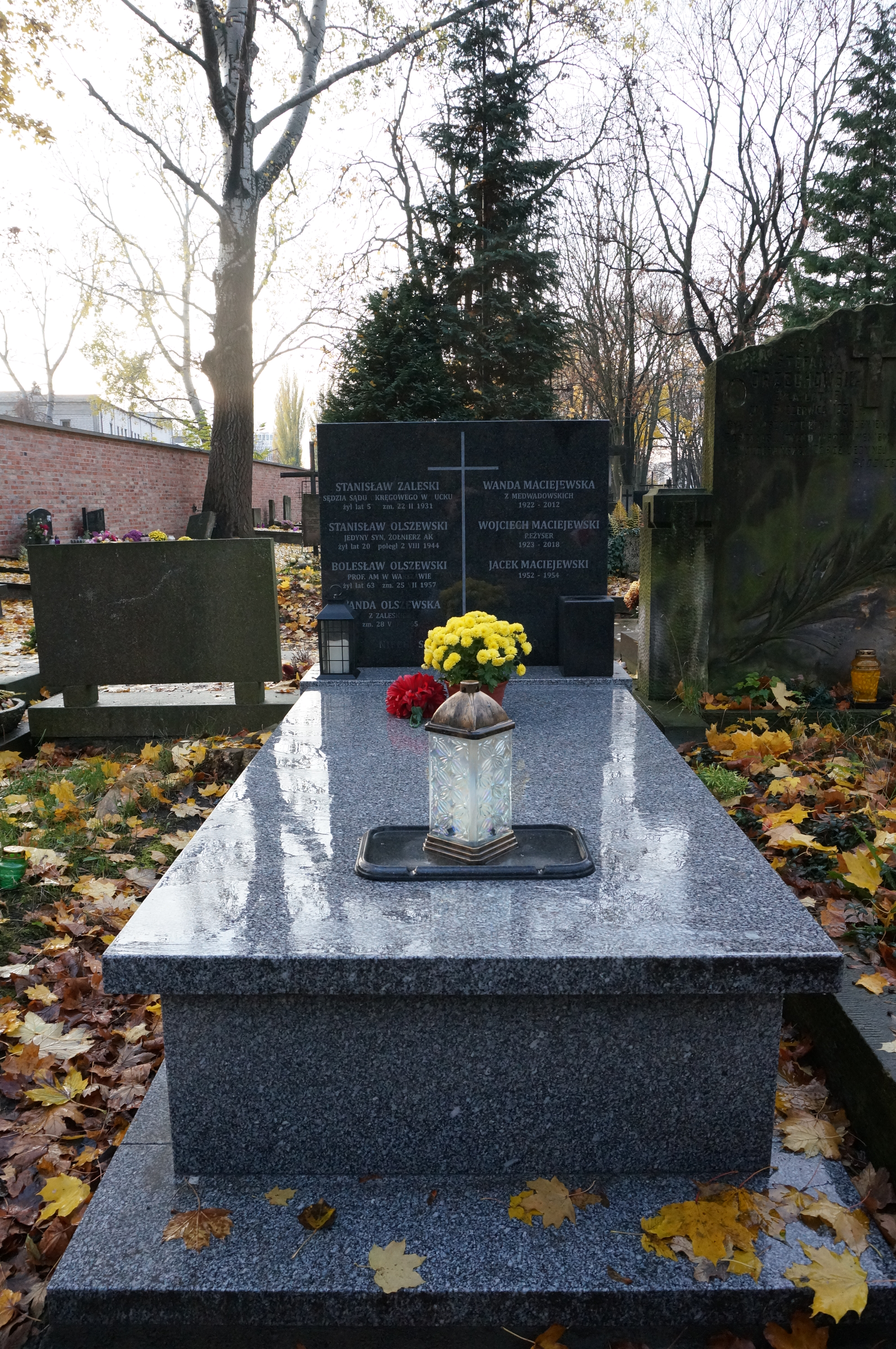 The grave of Bolesław Olszewski at Cmentarz Powązkowski (section 338, row 5, grave 4)